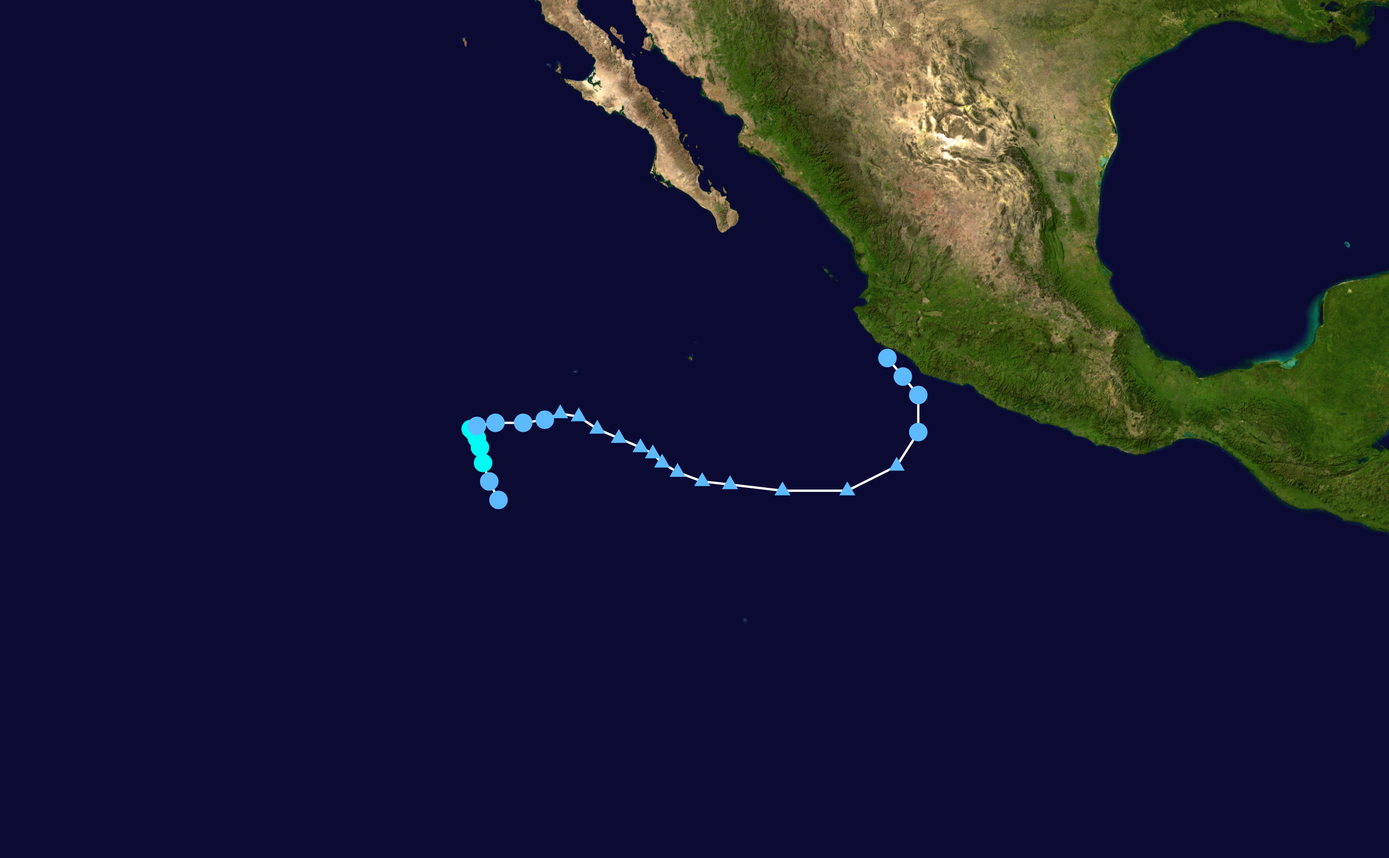 Track map of Tropical Storm Norman of the 2006 Pacific hurricane season. The points show the location of the storm at 6-hour intervals. The colour represents the storm's maximum sustained wind speeds as classified in the Saffir–Simpson scale (see below), and the shape of the data points represent the nature of the storm, according to the legend below. Saffir–Simpson scale Tropical depression≤38 mph≤62 km/h Category 3111–129 mph178–208 km/h Tropical storm39–73 mph63–118 km/h Category 4130–156 mph209–251 km/h Category 174–95 mph119–153 km/h Category 5≥157 mph≥252 km/h Category 296–110 mph154–177 km/h Unknown Storm type Tropical cyclone Subtropical cyclone Extratropical cyclone / Remnant low / Tropical disturbance / Monsoon depression